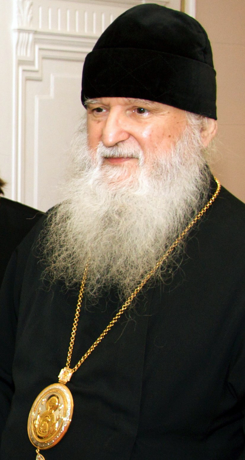 Епископ Русской православной церкви заграницей